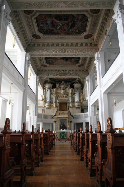 Gotha, Friedenstein Castle, castle church